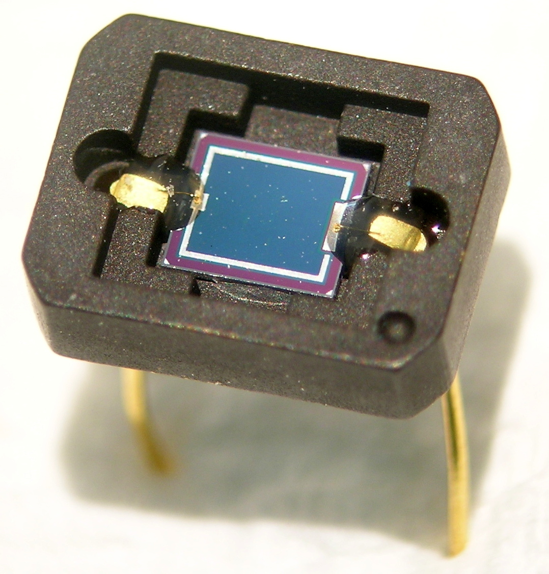 Photodiode close-up. The iridescent square blue center is the active area of the part. Tiny bond wires connect the chip to the package's leads; these bond wires are protected with an encapsulant. The polarity of the device is marked with a small indentation in the lower right corner.